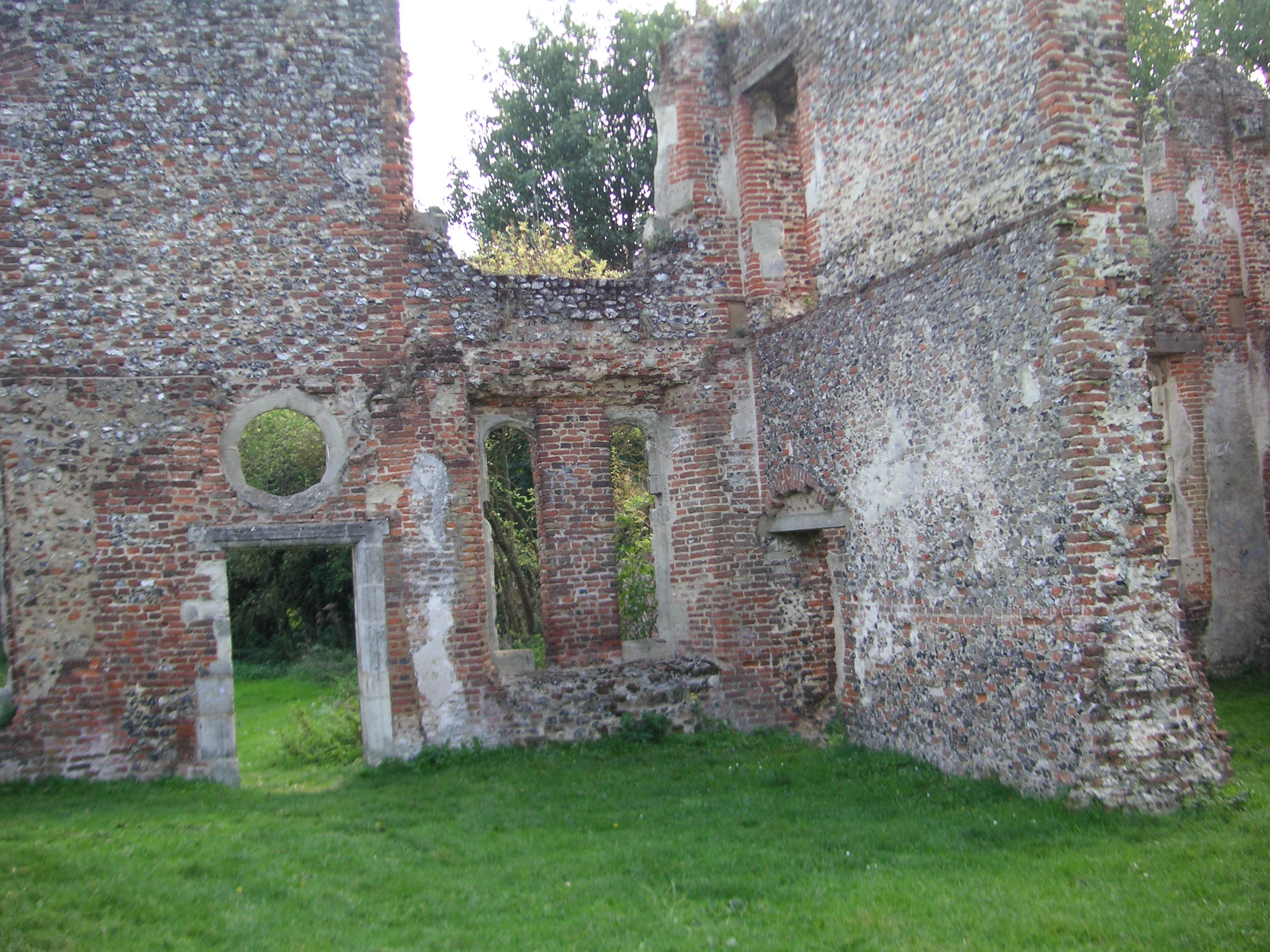 Photograph of ruins at Sopwell House (September 2006)